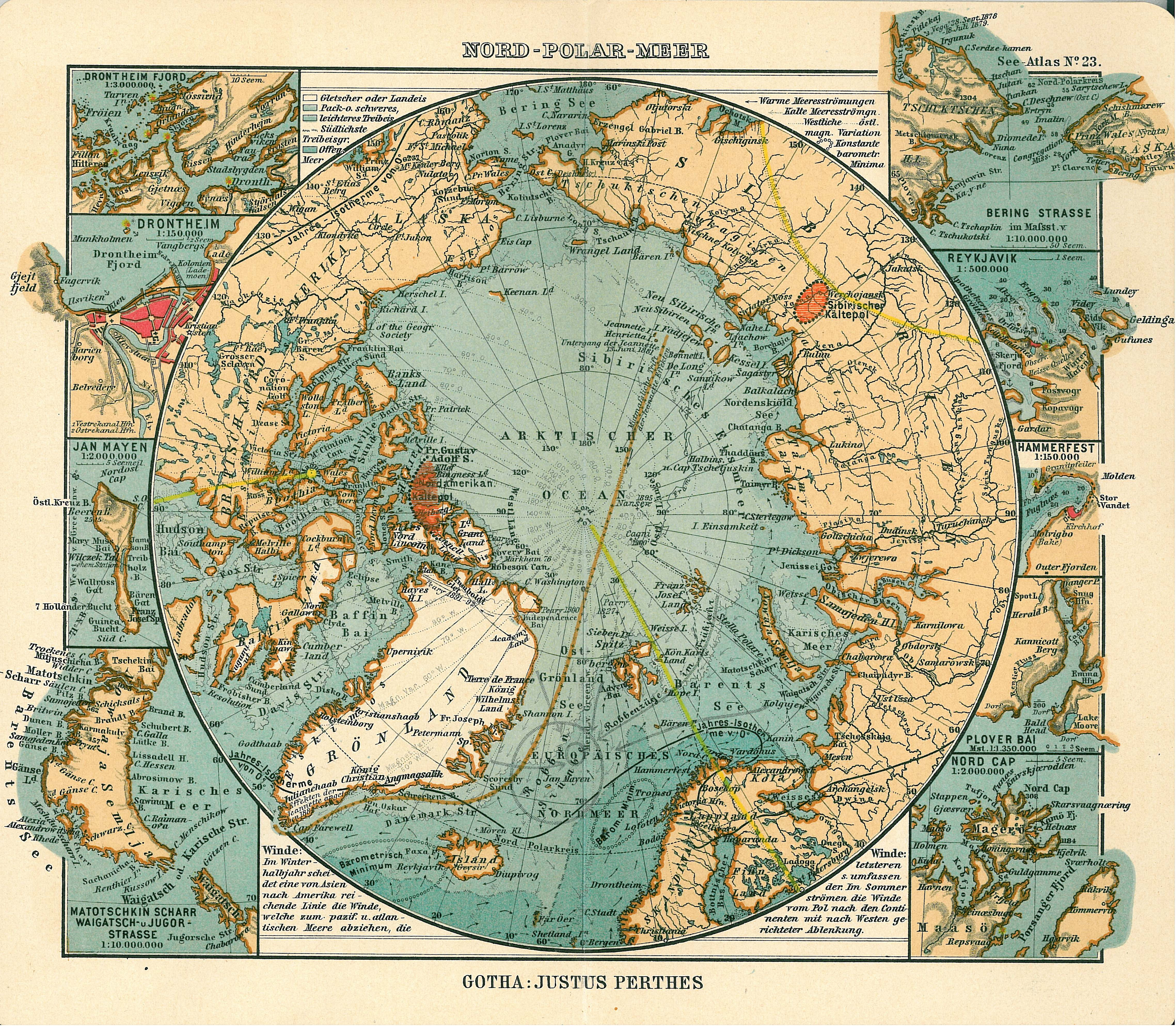 Page 23, Arctic, inset maps of Drontheim, Drontheim fjord, Jan Mayen, Bering strait, Reykjavik, Hammerfest, Plover Bay, Nordkap, Nowaja zemlja